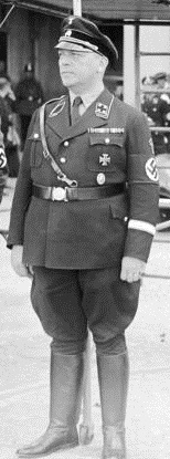 SS-Obergruppenführer Franz Breithaupt; hier: SS-Obersturmbannführer.